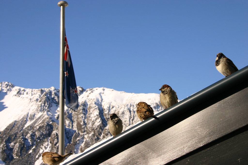 House Sparrows on a restaurant roof near Mt. Cook in New Zealand